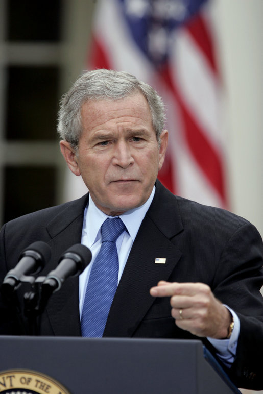 Press Conference by the President President George W. Bush holds a press conference in the Rose Garden Wednesday, Oct. 11, 2006. “In response to North Korea's actions, we're working with our partners in the region and the United Nations Security Council to ensure there are serious repercussions for the regime in Pyongyang,” said President Bush. White House photo by Paul Morse